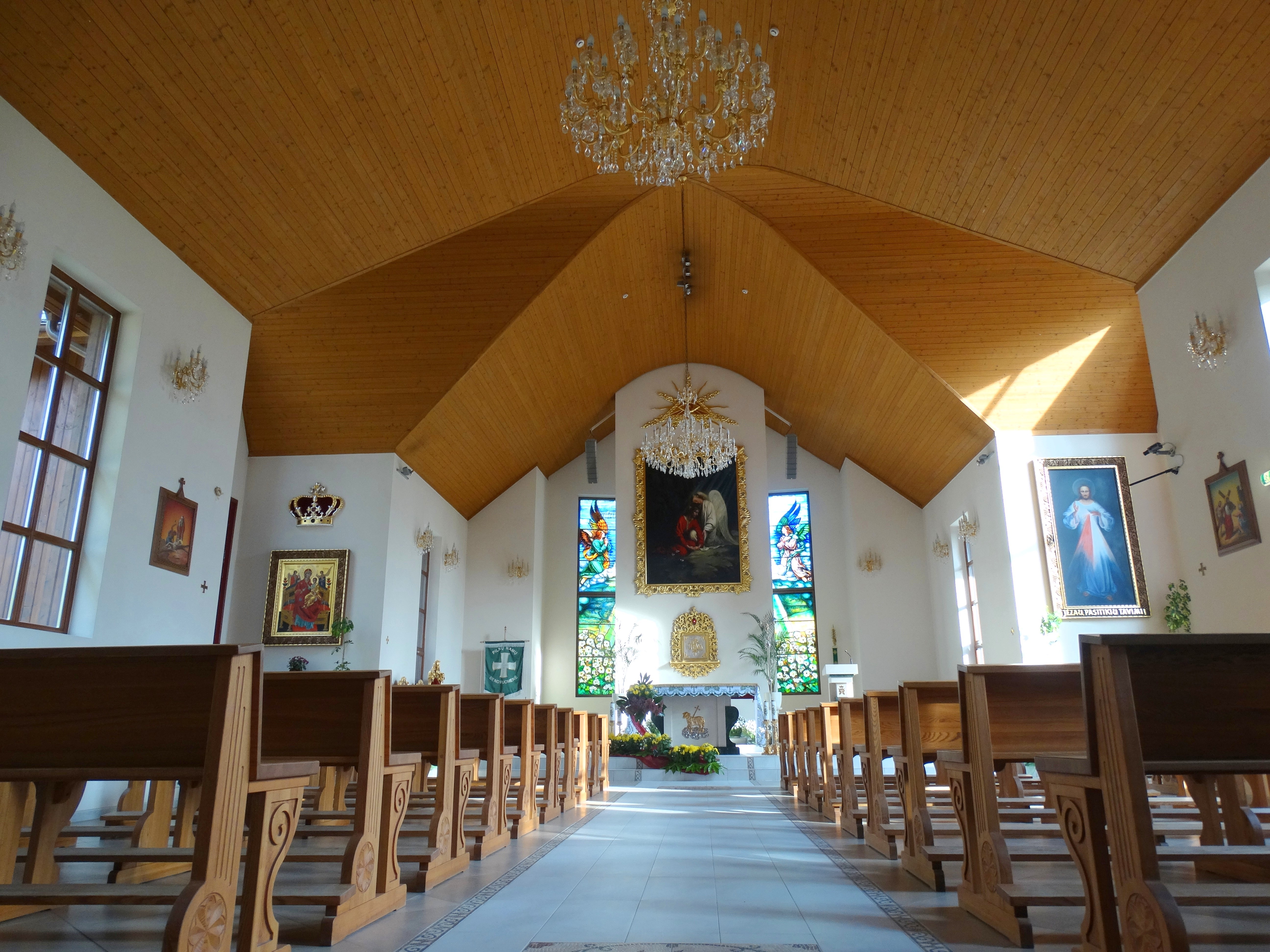 Full House community chapel, Panara, Varėna district, Lithuania